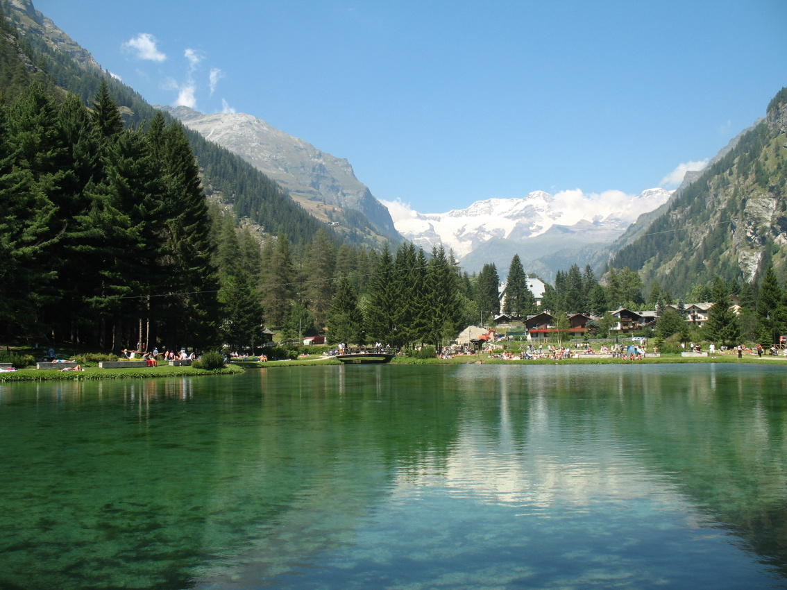 Gressoney-Saint-Jean